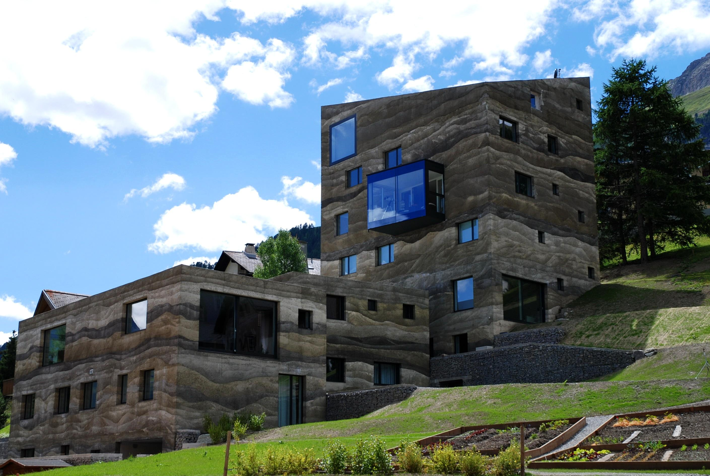 Houses in Samedan, Graubünden